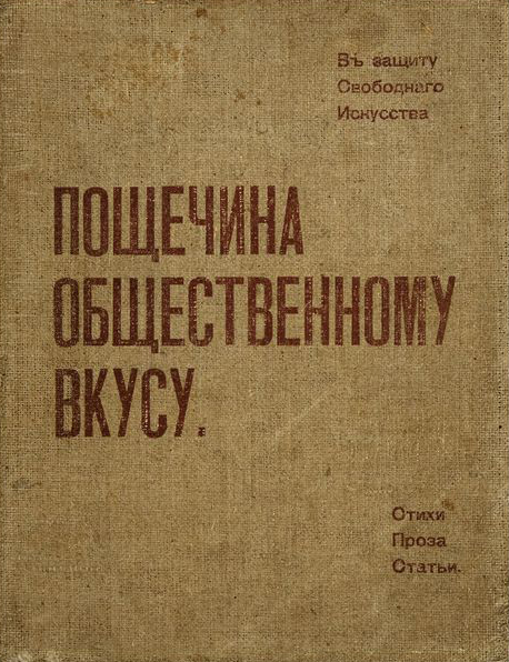 Cover of Russian Futurists' book "A Slap in the Face of Public Taste", 1912